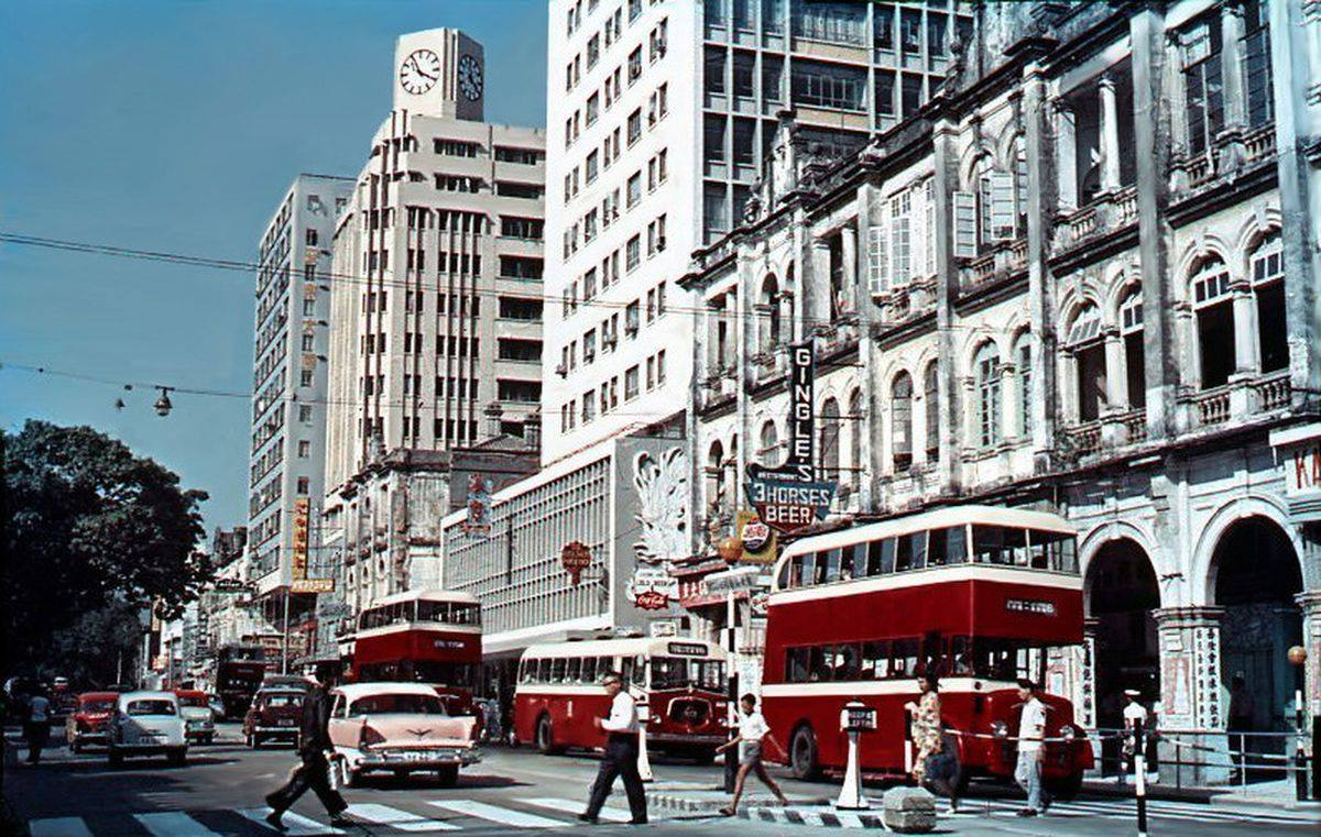 1962 in Nathan Road: The taller building at the further block is Hong Kong Telephone Building (built in 1949); the Manson House (built in 1958) in the middle block; at the foremost are terraced buildings including Cheong Hing Store and Gingle's Restaurant